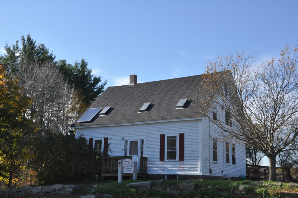 A house (now used as a daycare center) on the state-owned White Farm in Concord, New Hampshire.